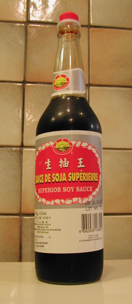 Photo d'une bouteille de siaw prise à la Réunion. (English): A bottle of light soy sauce.